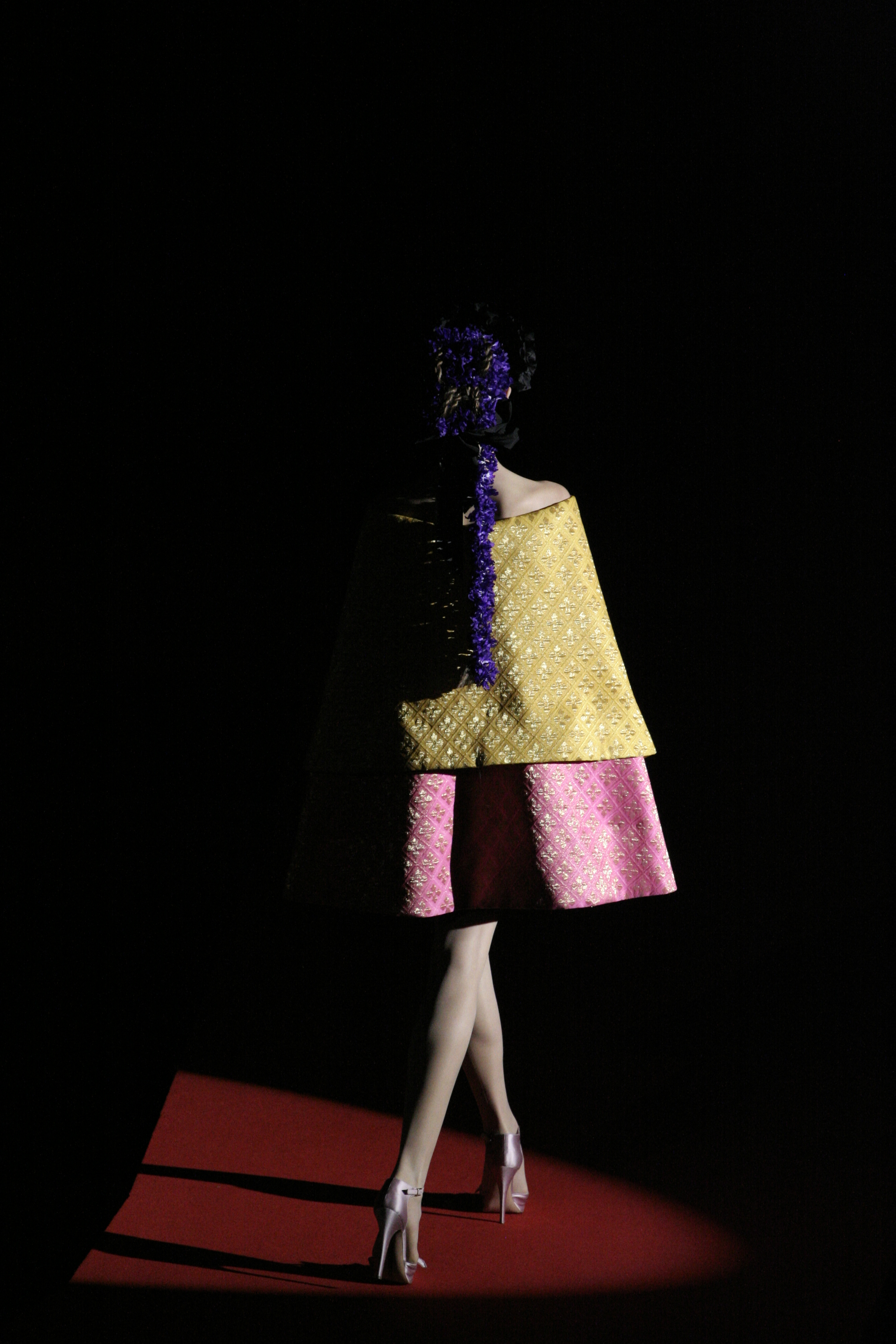 Christian Lacroix, 20 years of haute couture on the catwalk. Arles (FR)